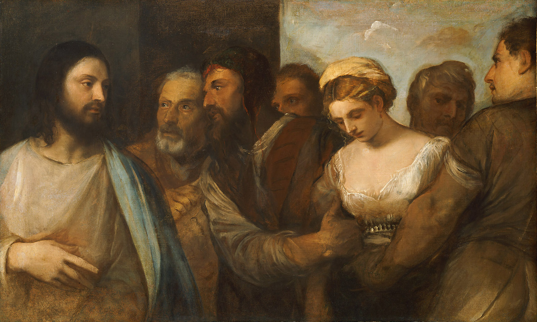 Christ and the adulteresslabel QS:Lde,"Christus und die Ehebrecherin"label QS:Len,"Christ and the adulteress"